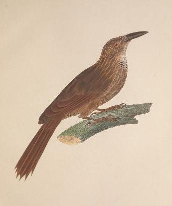 Dendrocolaptes platyrostris. Spix: Avium species novae. pl. 87